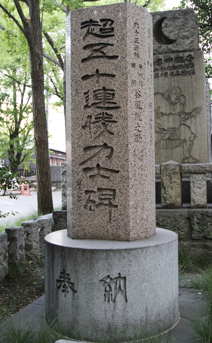 Stone Monuments of Rikishi Over 50 Consecutive Wins at the Tomioka Hachiman Shrine in Koto-ku, Tokyo